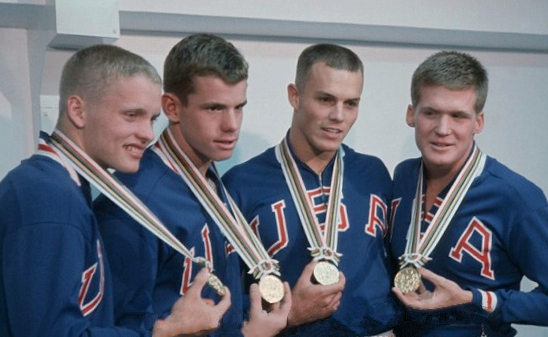 Left-right: Don Schollander, Gary Ilman, Mike Austin, Steve Clark at the 1964 Olympics